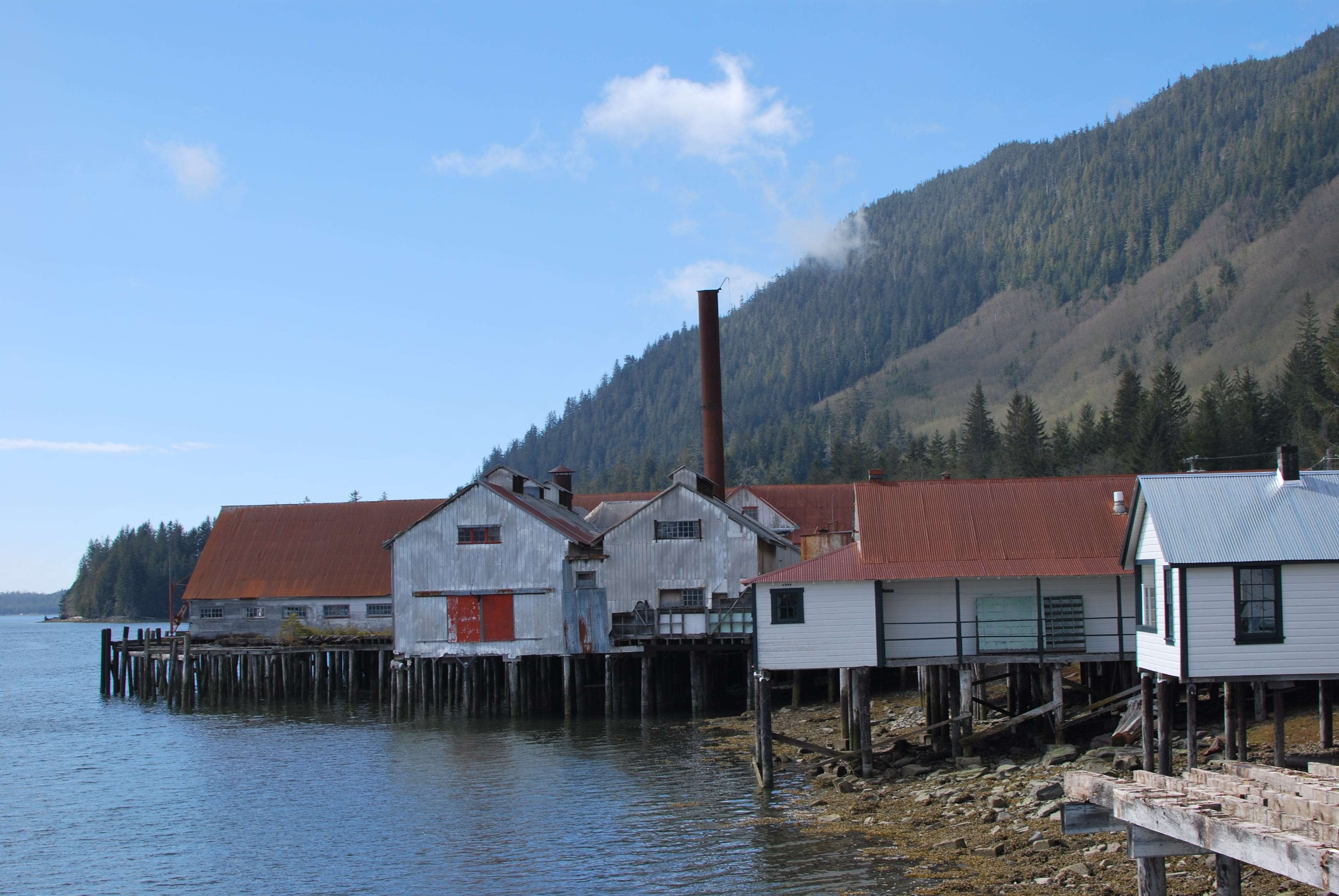 Waterfront view at North Pacific Cannery